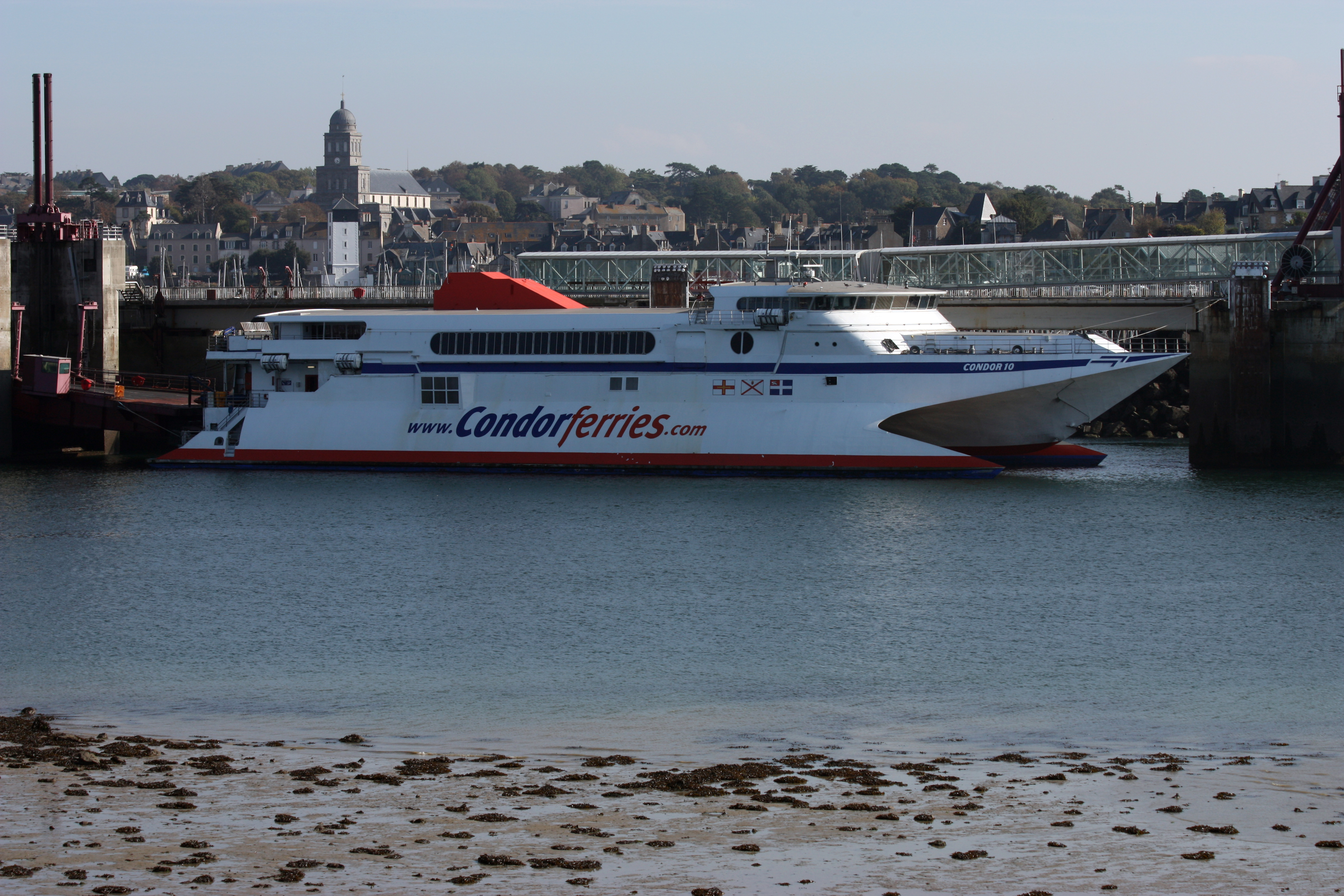 The ferry Condor 10 in the harbour of Saint-Malo.